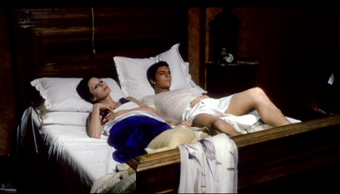 Screenshot from Edipo re